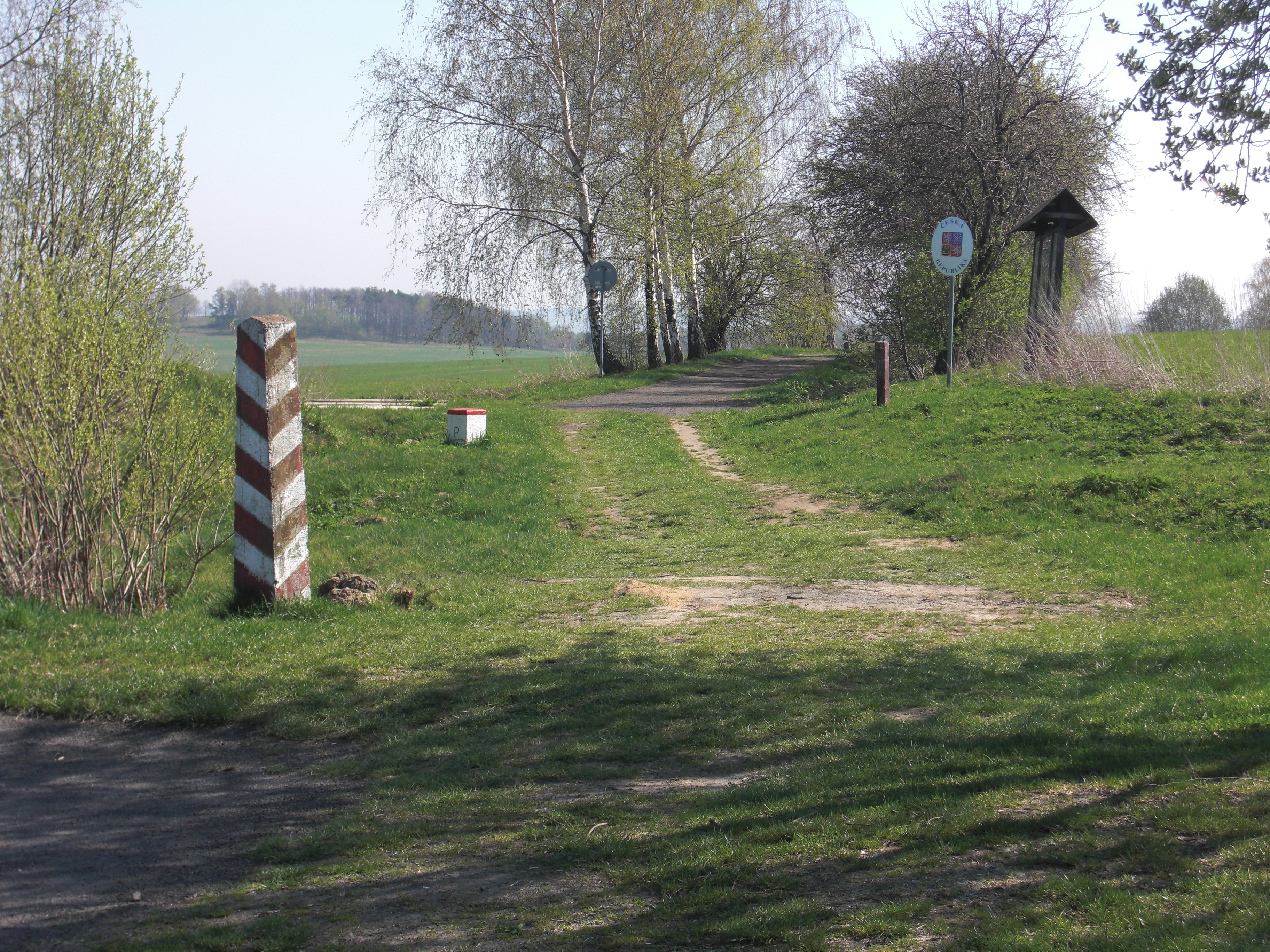 Border